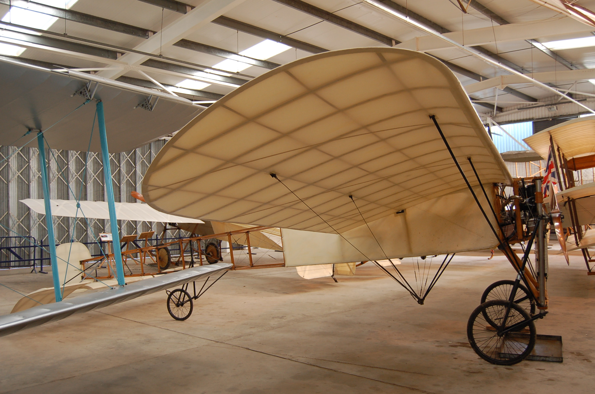 Bleriot XI at the Shuttleworth Collection,Old Warden,13/10/12.